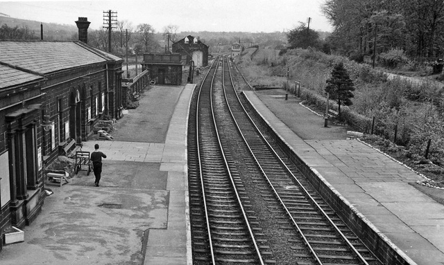 Burley-in-Wharfedale Station. View SE, towards Guiseley and Leeds/Bradford (to right) and Otley and Arthington (branching left); ex-Midland & North Eastern (Otley & Ilkley Joint), Arthington - Otley - Burley - Ilkley line (closed completely 5/7/65) Arthington - Burley, the lines from Leeds and Bradford via Guiseley being ex-Midland.